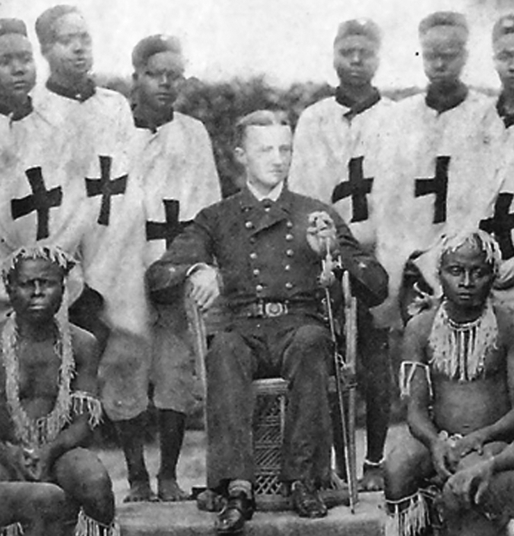 Maurice Vidal Portman (21 March 1860 in London, Ontario, Canada – 14 February 1935 in Axbridge, Somerset, UK)